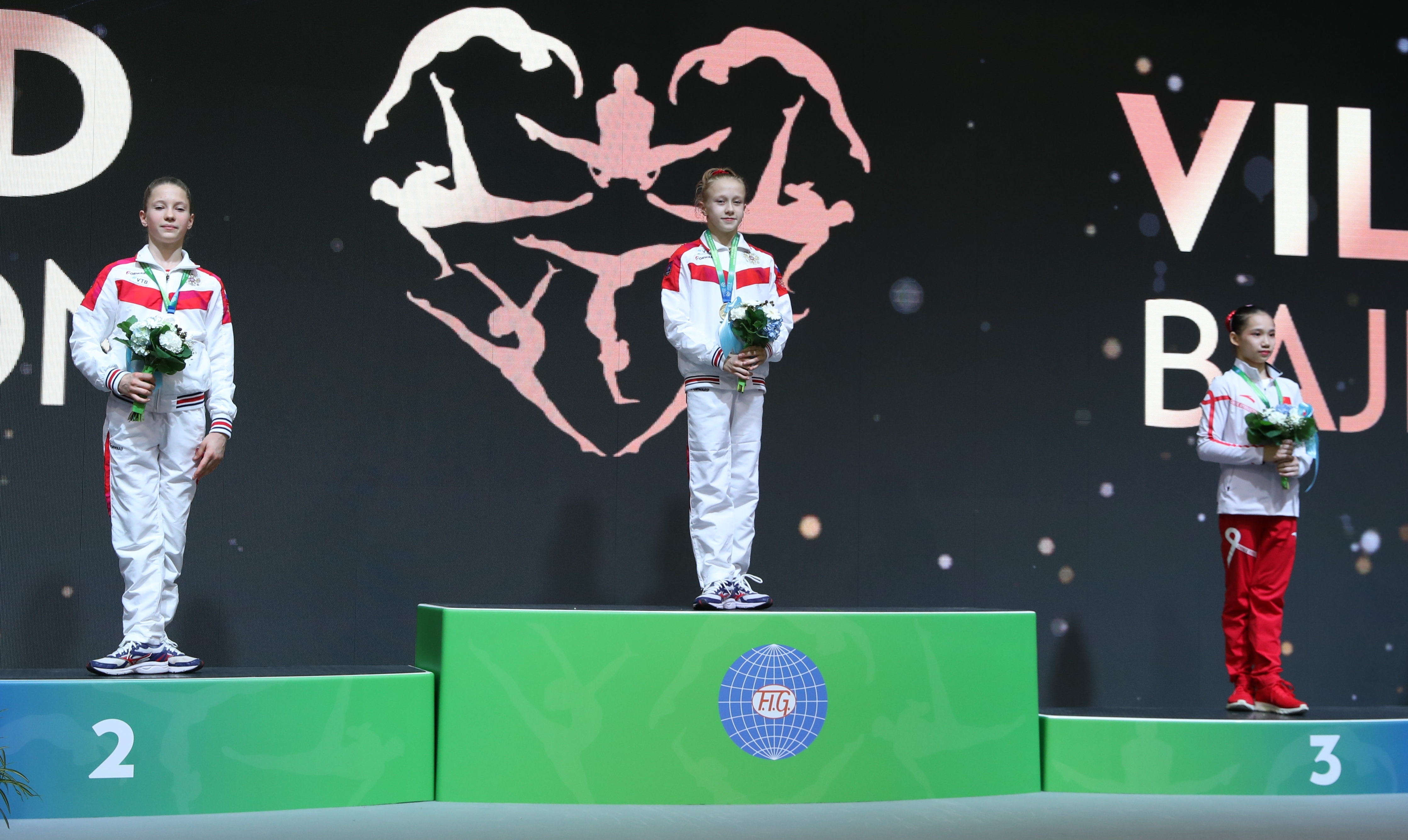 Victory ceremony for the girls' all-around final at the 1st FIG Artistic Gymnastics Junior World Championships on 28 June 2019 in Győr, Hungary. Depicted: Viktoriia Listunova. Vladislava Urazova. Yushan Ou.